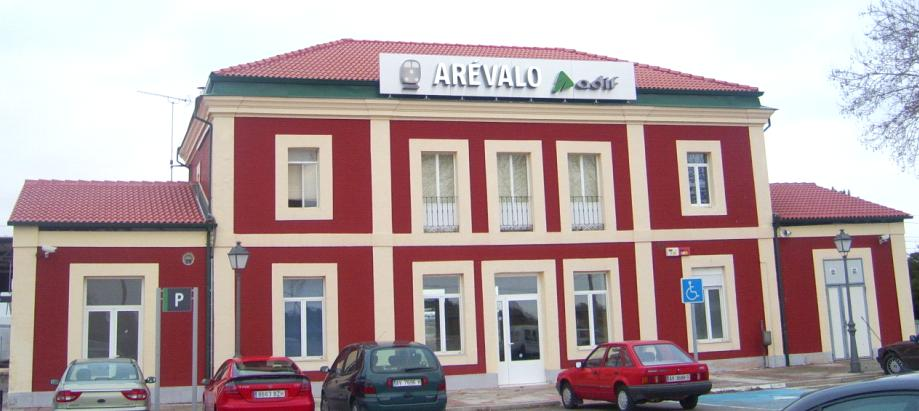 Train station of Arévalo (Ávila)